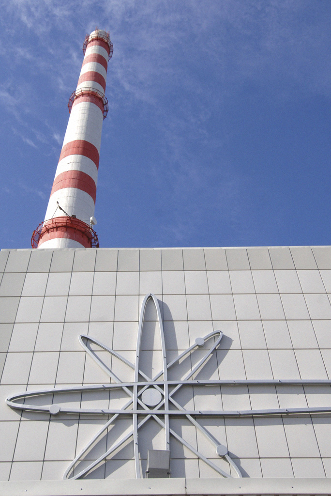 “Leningrad Nuclear Power Plant near St.Petersburg”. Leningrad Nuclear Power Plant located in the town of Sosnovy Bor on the southern shore of the Gulf of Finland.